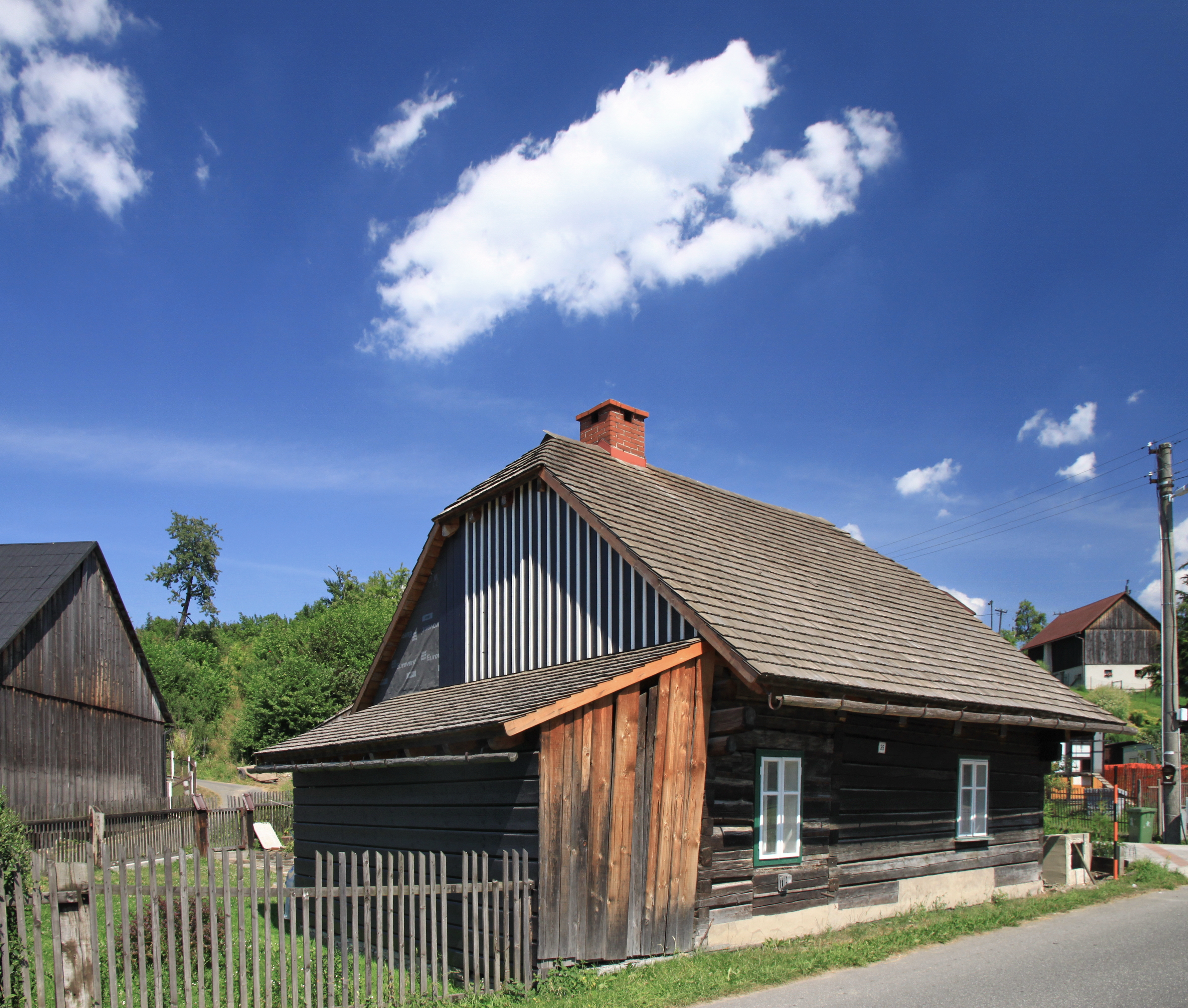 Rural homestead, Bukovec 35, Bukovec. Moravian-Silesian Region, Czech Republic.